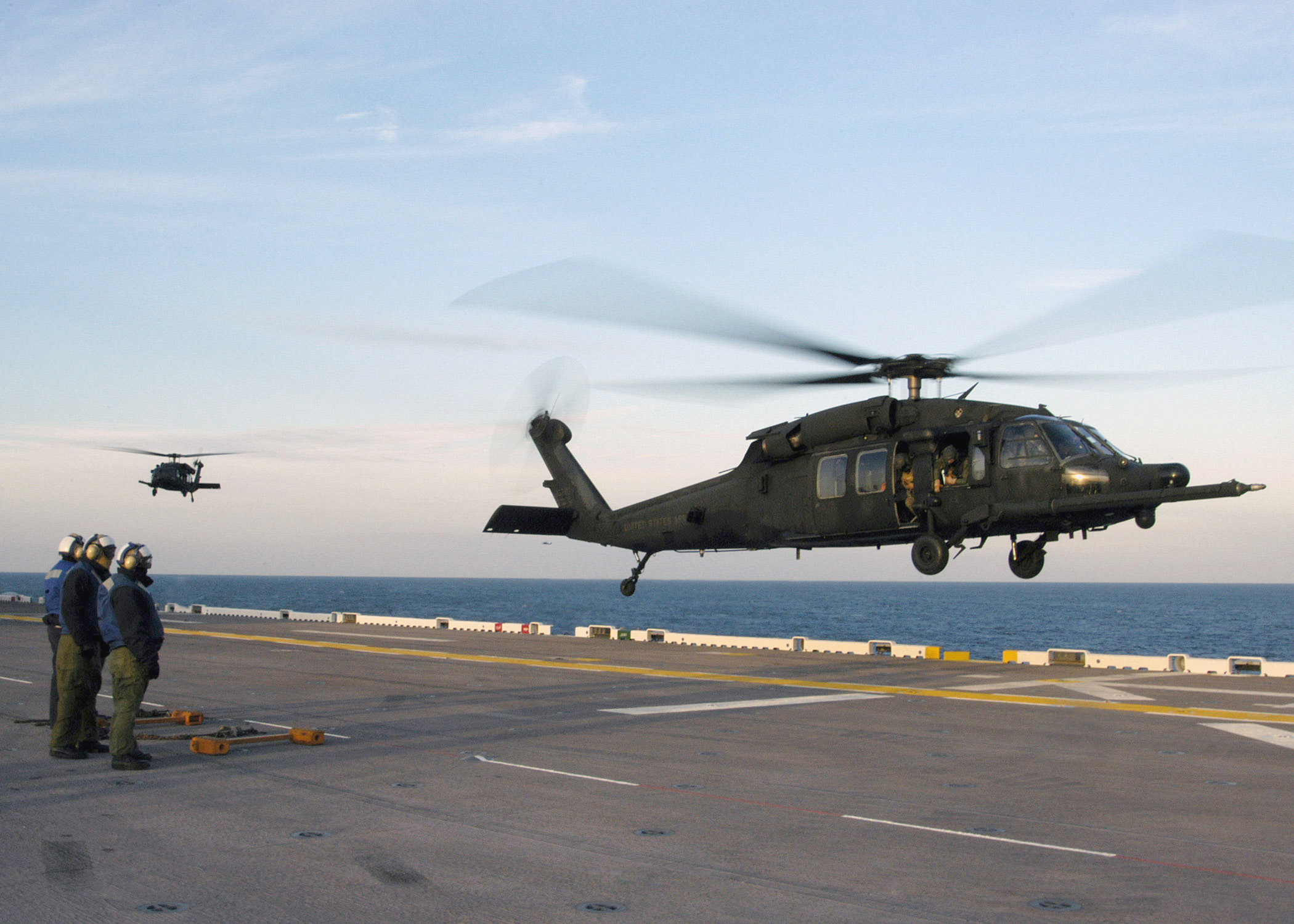 US Navy (USN) Air Department Sailors, Wasp Class Amphibious Assault Ship, USS BATAAN (LHD 5), stand-by with chocks and chains as two US Army (USA) UH-60M Black Hawk (Blackhawk) helicopters, 160th Special Operations Aviation Regiment (SOAR), Fort Campbell, Kentucky (KY), prepare to land onboard the flight deck, as part of their over water qualification program.